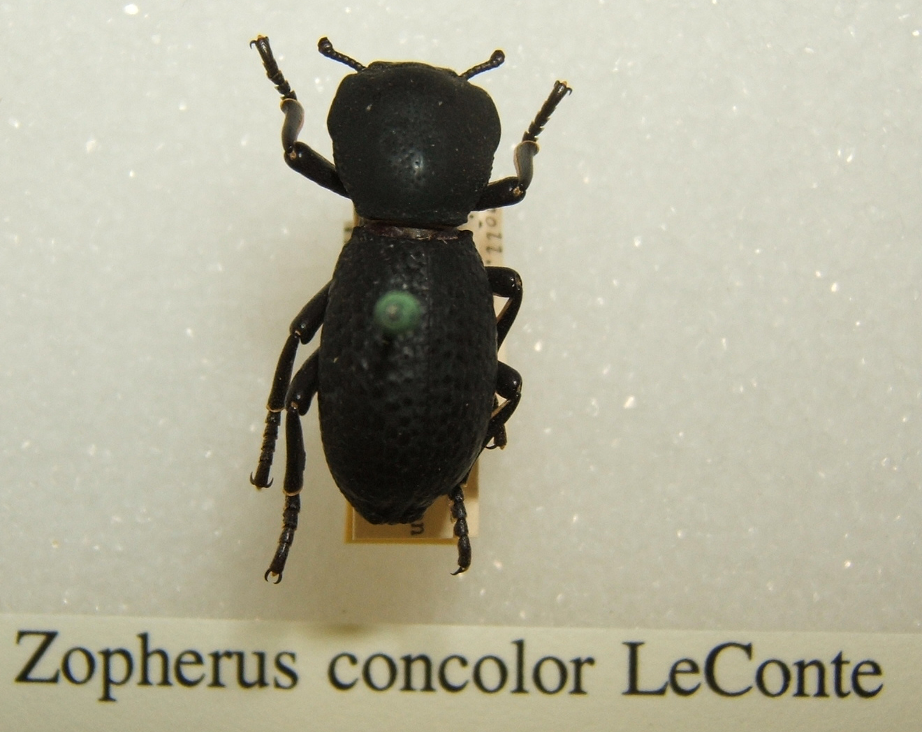 Zopherus concolor adult taken by Shawn Hanrahan at the Texas A&M University Insect Collection in College Station, Texas.